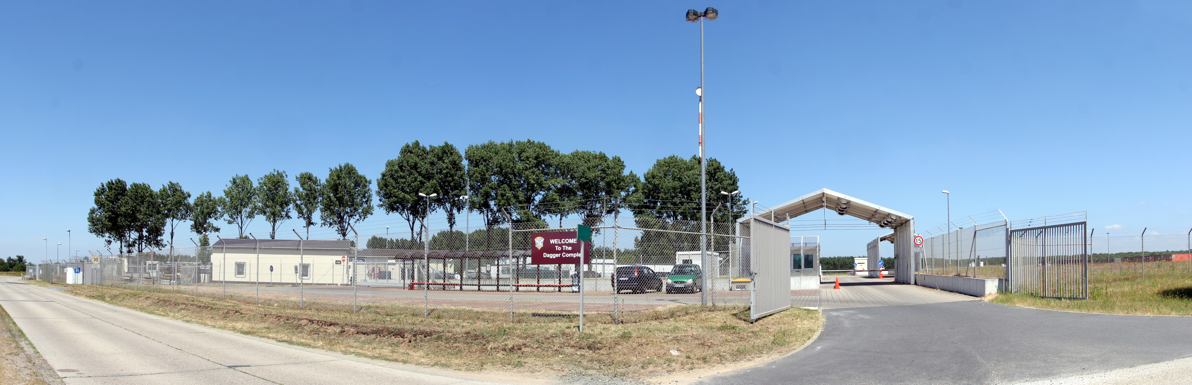 The Dagger Complex south of Griesheim. 180° panorama, made of four photographs.